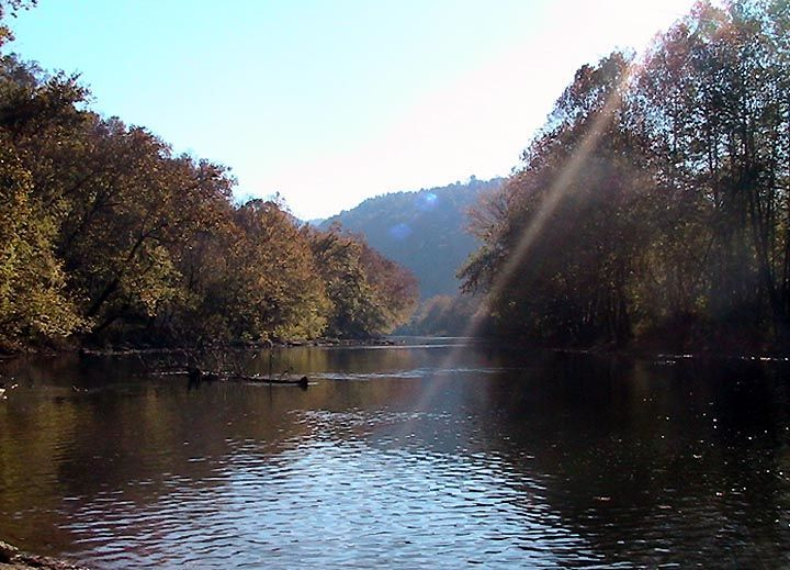 Image title: Clinch river Image from Public domain images website